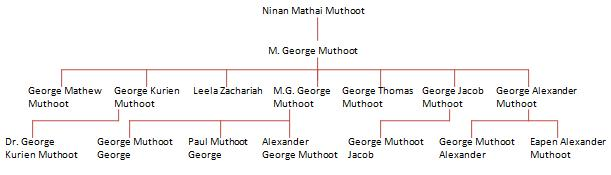 Family tree of the Muthoot Family